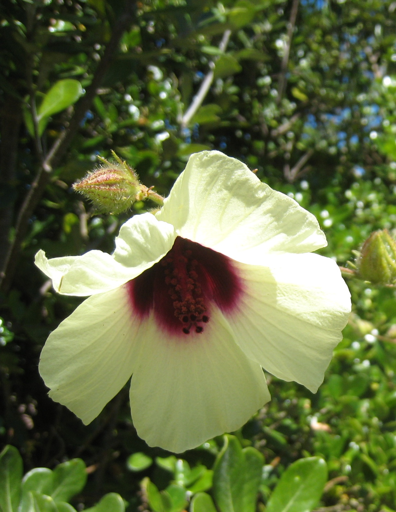 Flower of Swamp Hibiscus (Hibiscus diversifolius), also known as North Cape Hibiscus in New Zealand.